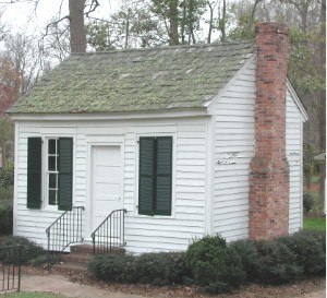 Historical School in Timrod Park, Florence, South Carolina, where Henry Timrod was a schoolteacher in the 1850s